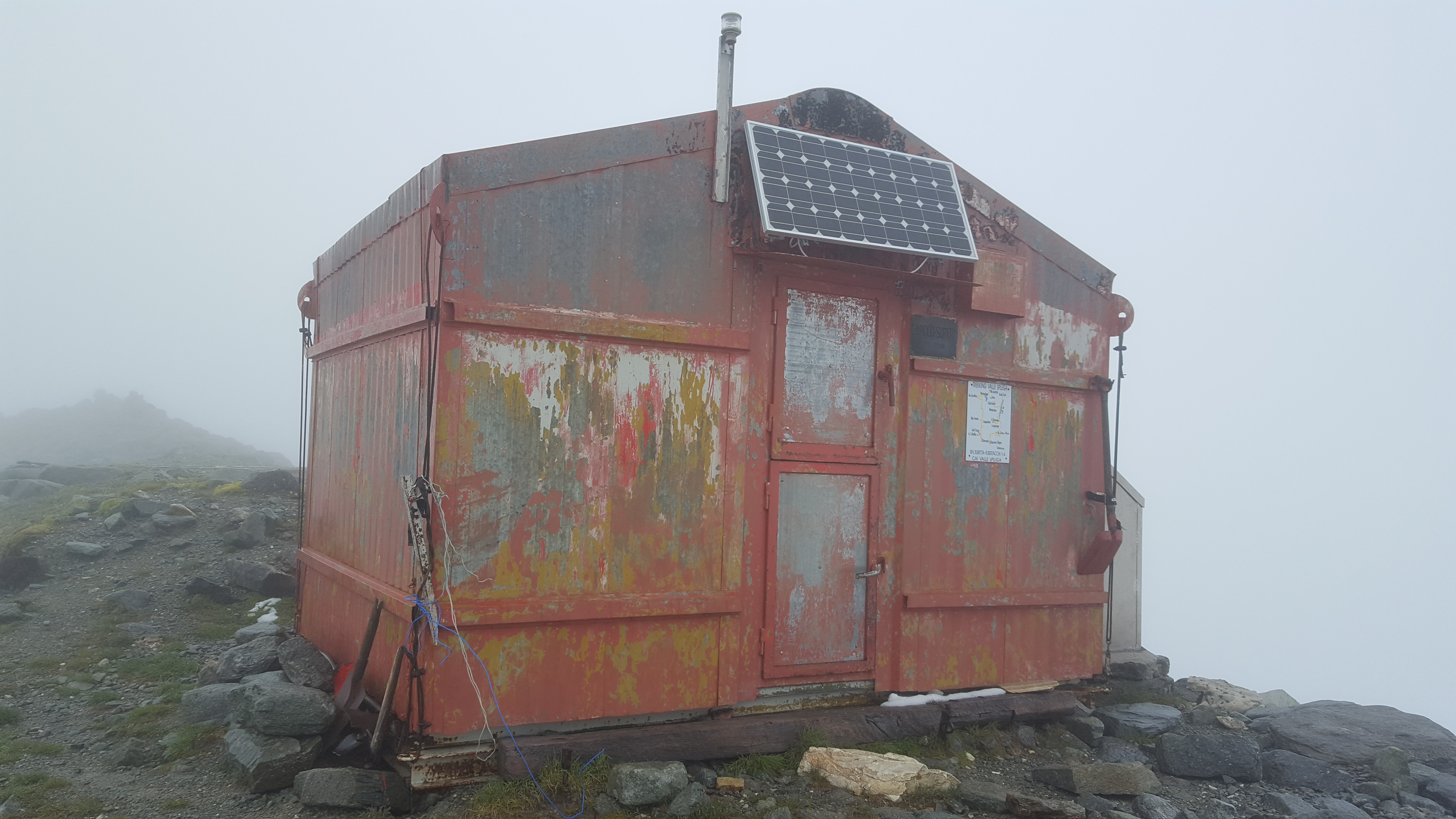 Bivacco Suretta (Italy)